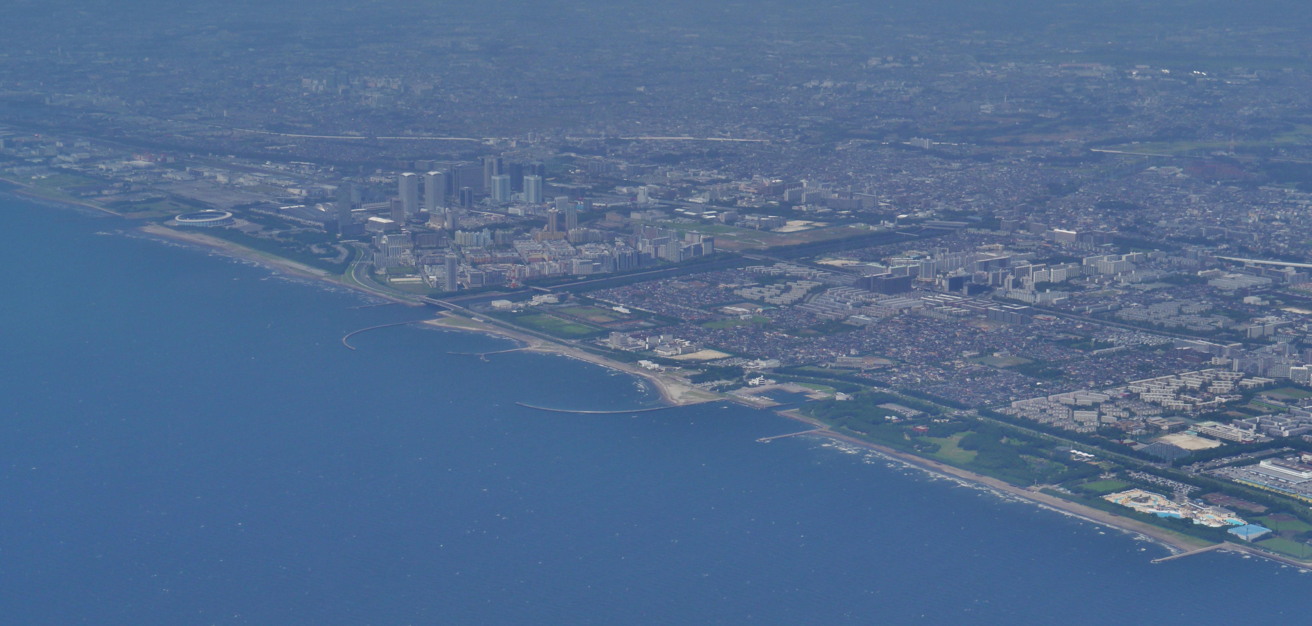 View from the Plane to Mihama, Chiba, Region of Kanto, Japan